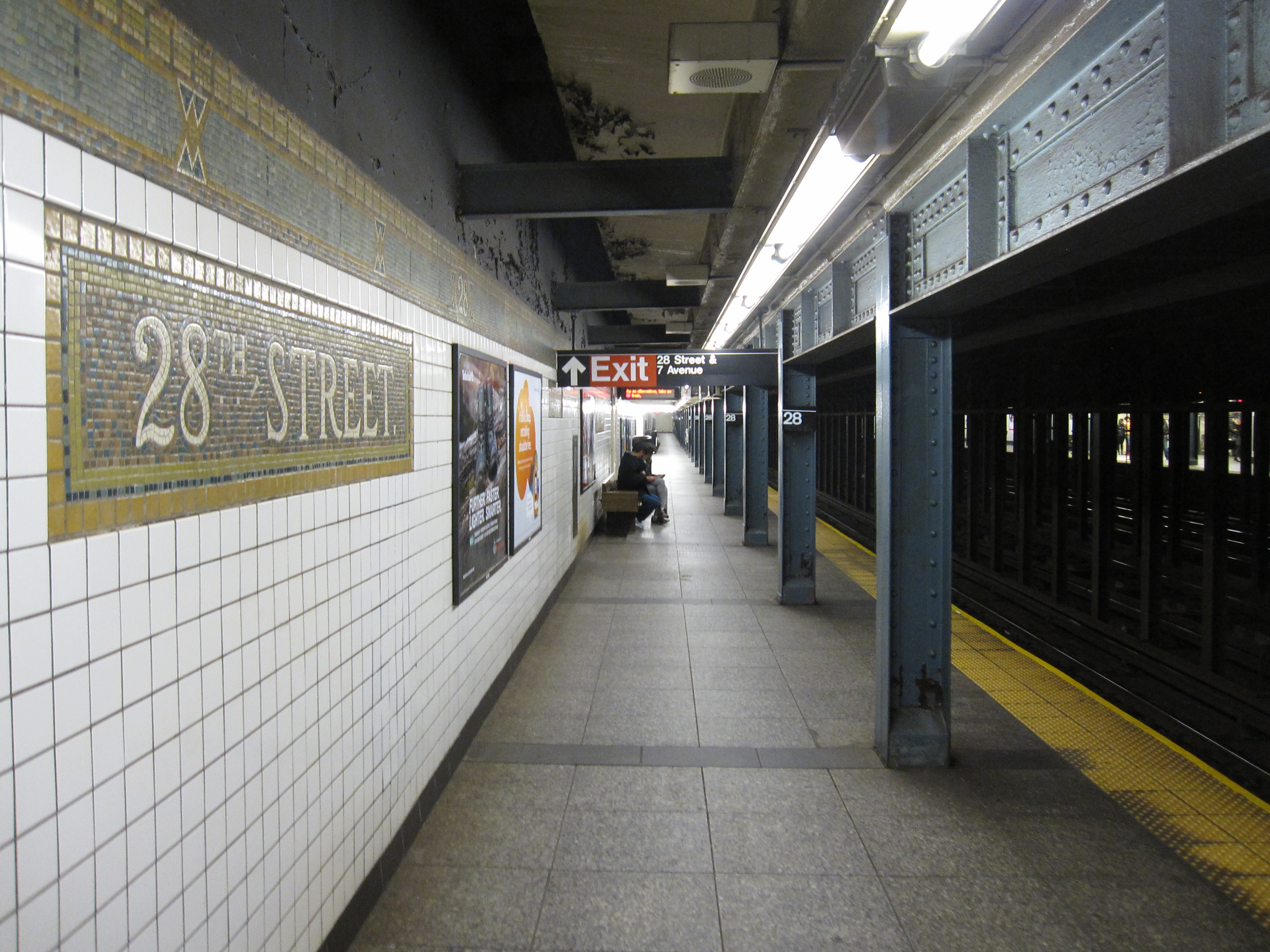 28th Street (IRT Broadway – Seventh Avenue Line)